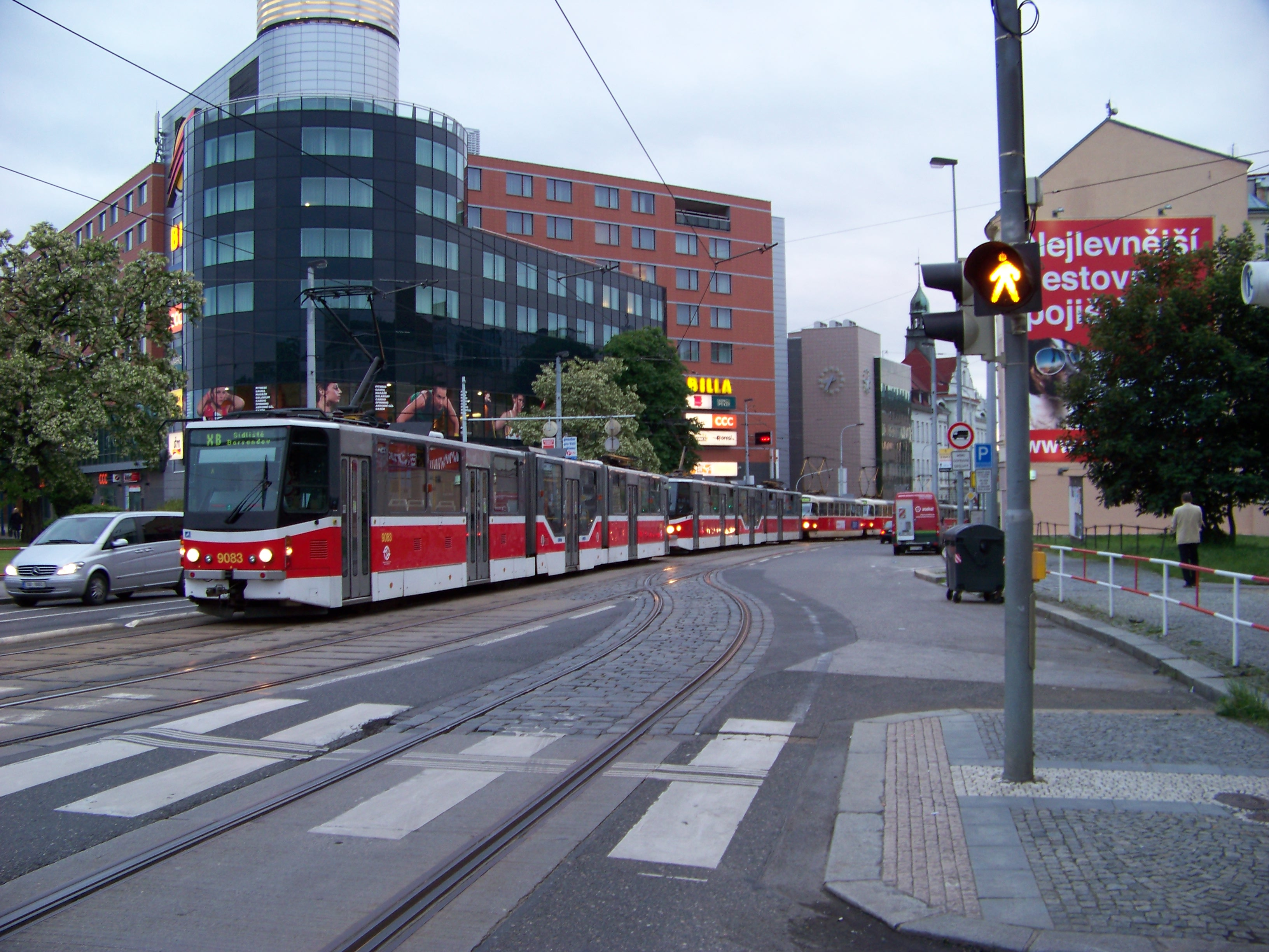 Prague-Vysočany, the Czech Republic. Sokolovská street, tram congestion.